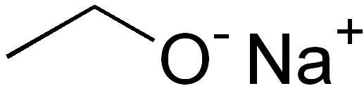 Chemical structure of sodium ethoxide